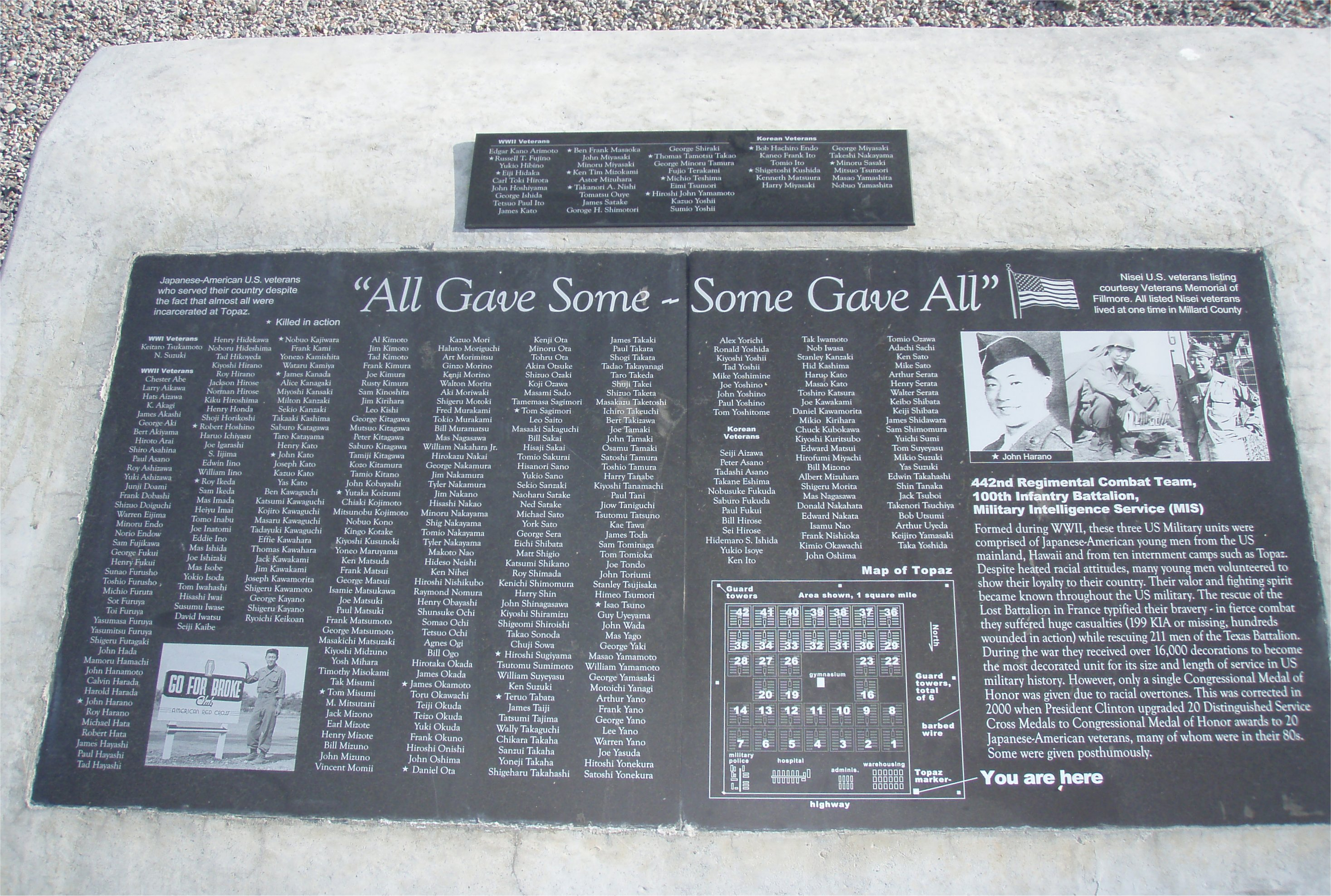 One of two plaques (the left-hand) at Topaz Japanese internment camp outside Delta, Utah